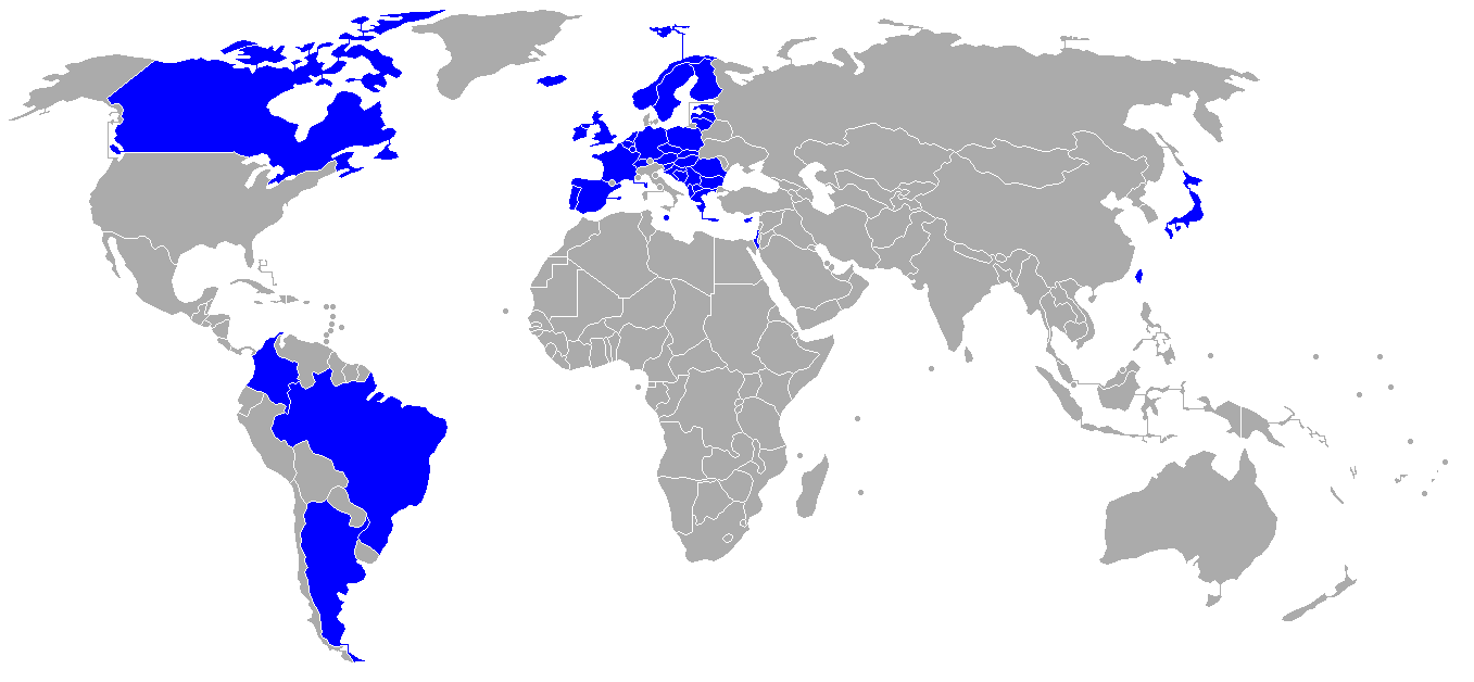 Countries which joined the European mobility week and Car-free day. Representational map.